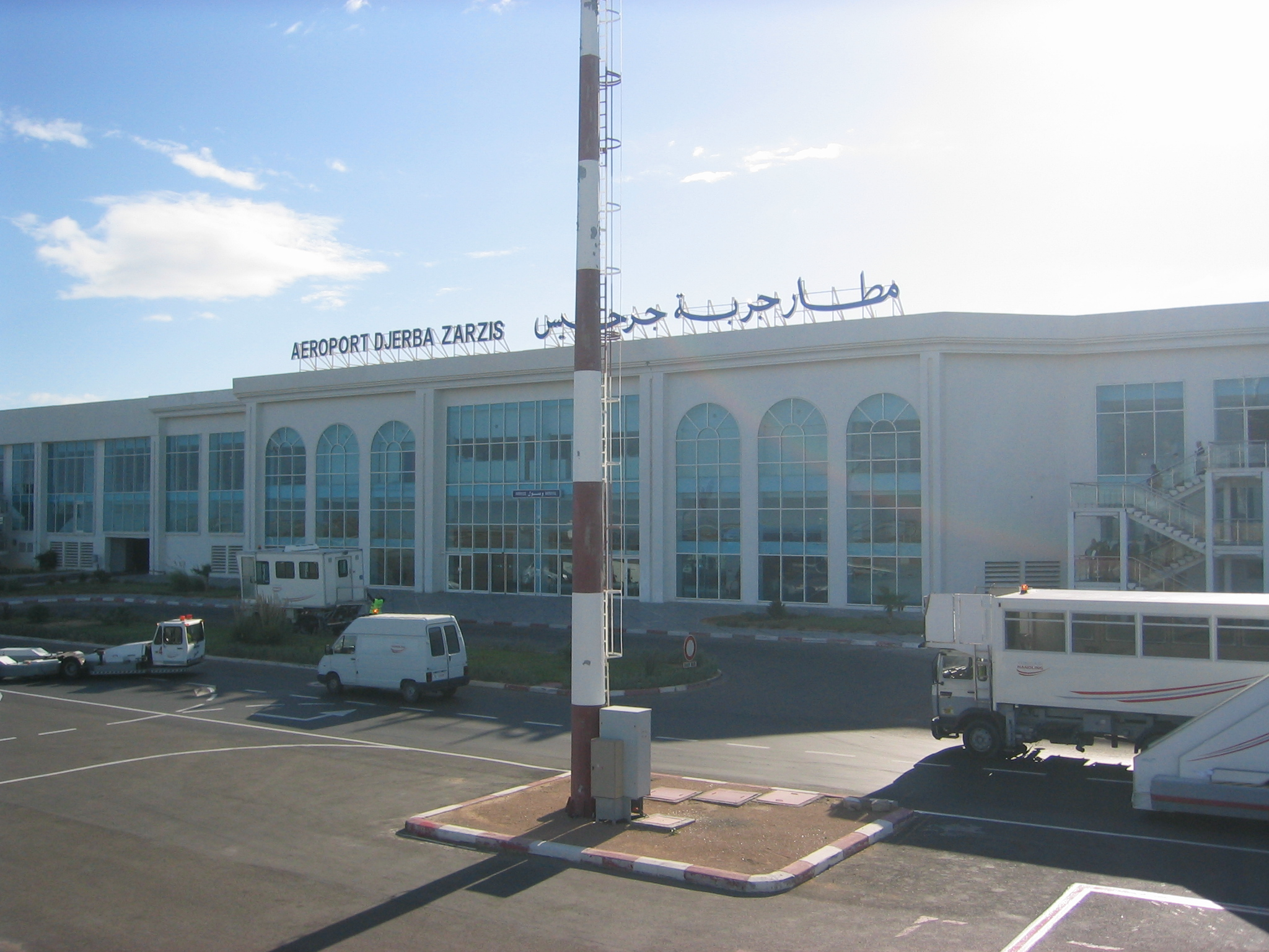 Zarzis, Tunisia